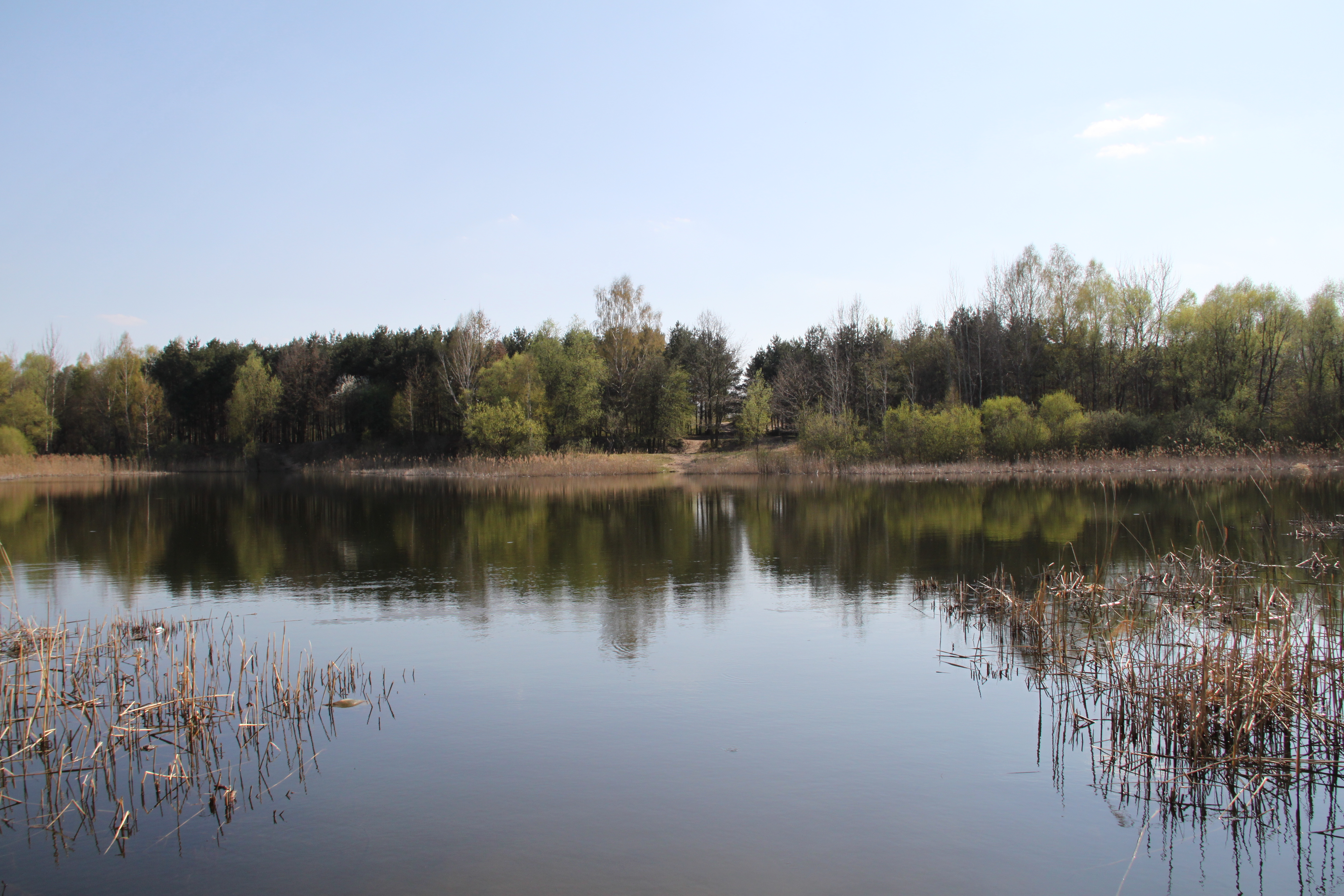 Small lake in Marki, Poland.